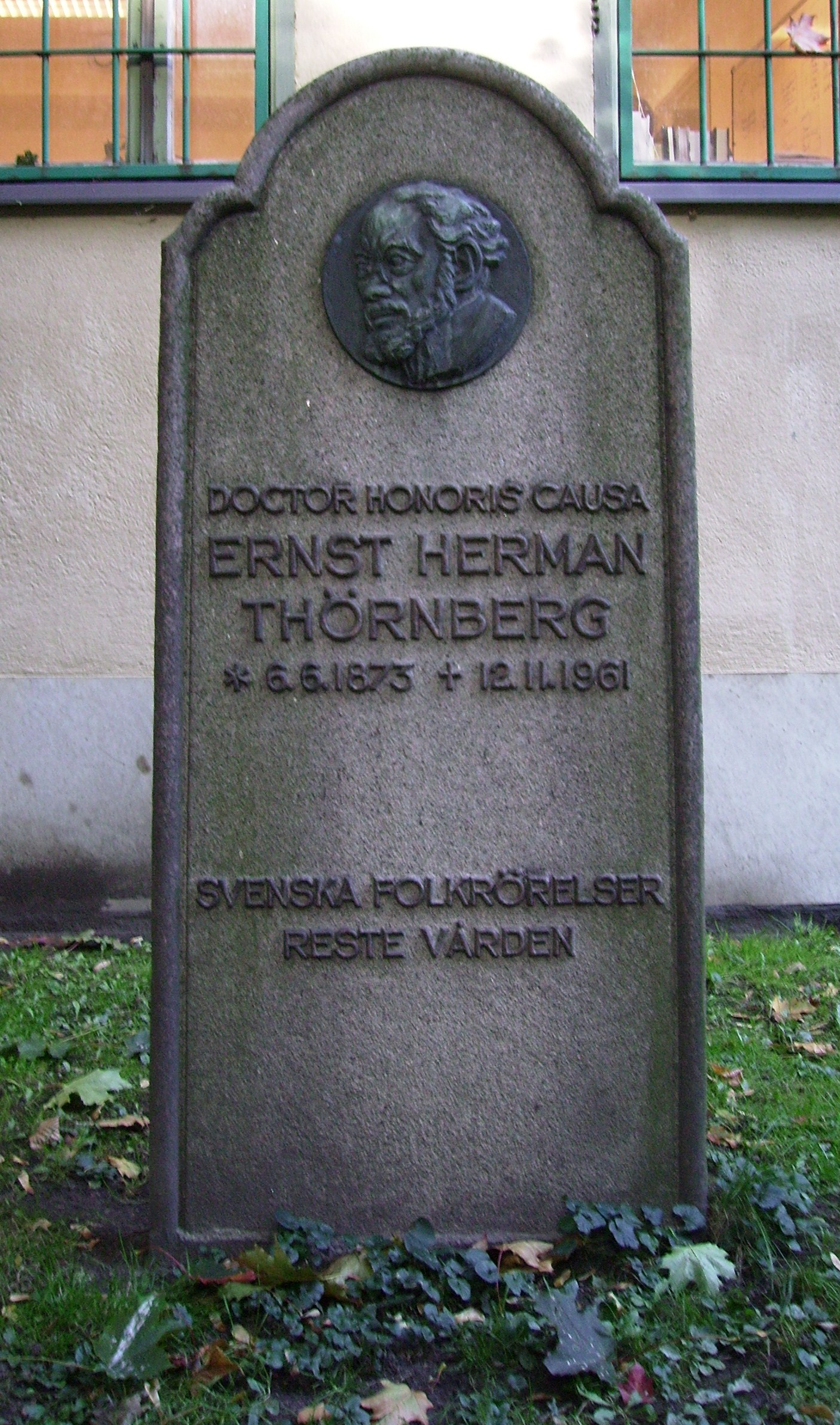 Picture of Ernst Herman Thörnberg's grave by Klara kyrka in Stockholm